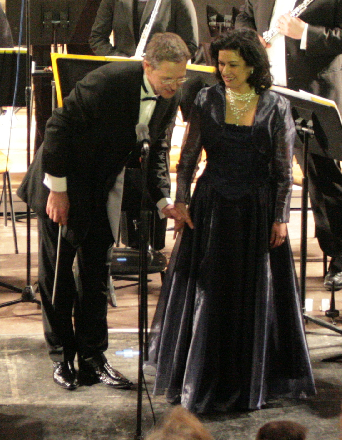 Pauluskirche in Ulm, Germany Douglas Bostock and Hélène Lindqvist at the end of a concert.